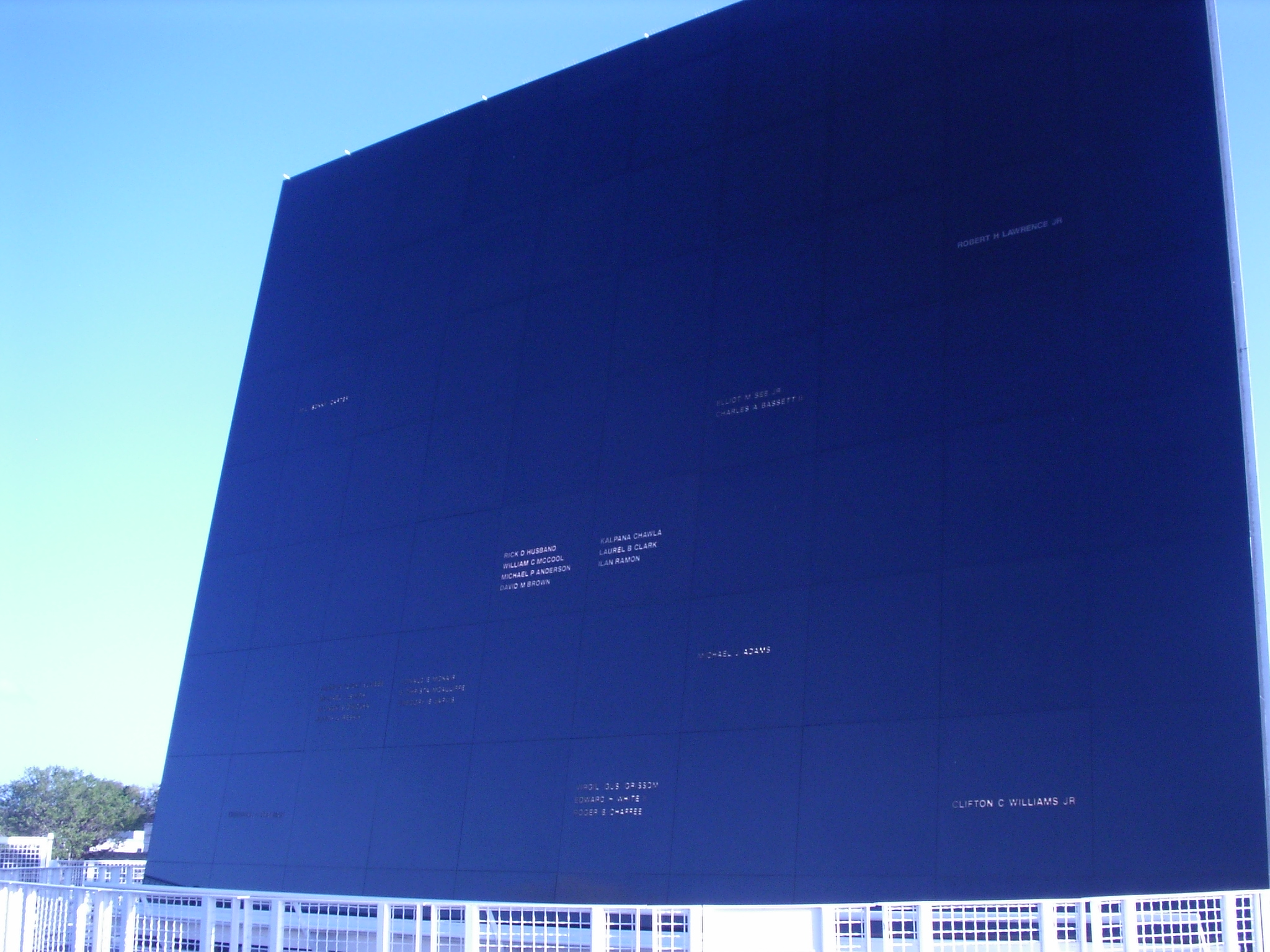 Space Mirror Memorial